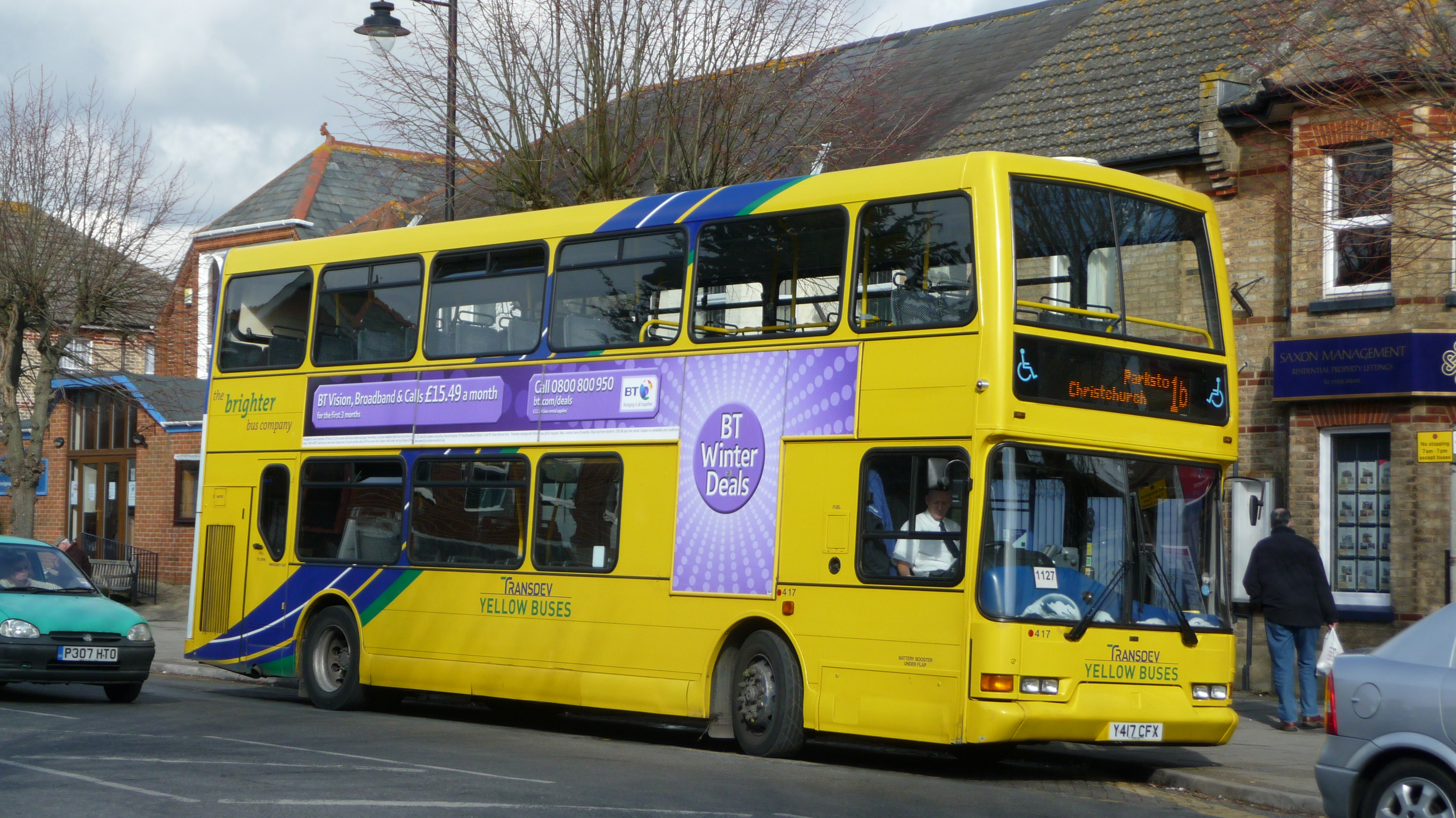 Transdev Yellow Buses 417 (Y417 CFX), a Volvo B7TL/East Lancs Vyking, in Bargates, Christchurch, on route 1b. Due to the closure of Bridge Street, buses were unable to serve the High Street as they could not get to the Civic Offices (where the 1b usually terminates) and so had nowhere to turn around. As a result, route 1b was terminating here in Bargates, the same as its Market Day terminus, when the High Street is closed for the market.